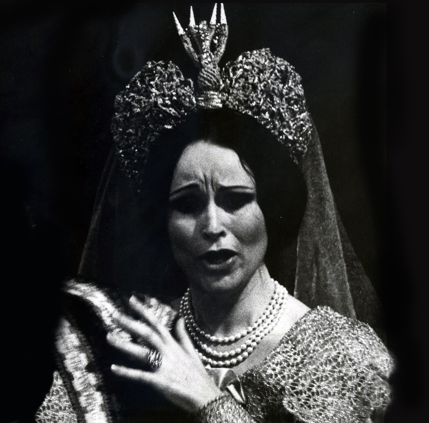 Rosetta Pizzo, soprano